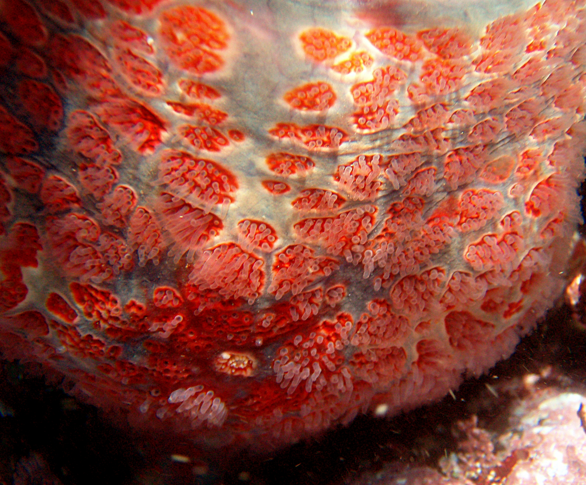 Close up of Leather sea star,Dermasterias imbricata in Tidepoosl in California